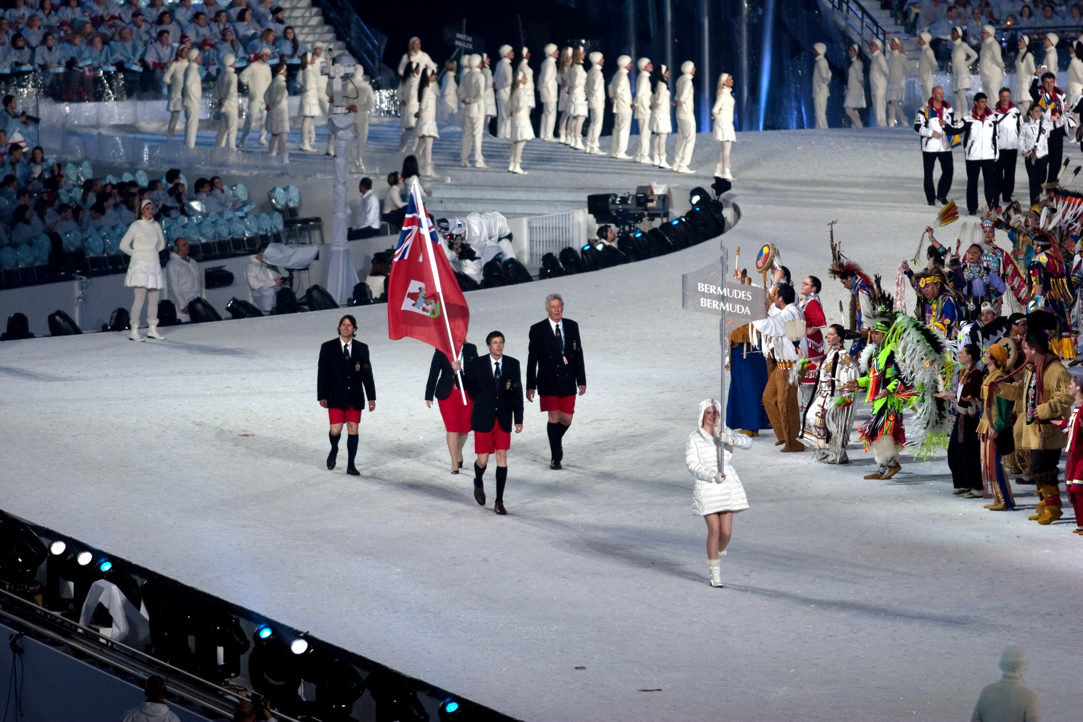 The athletes from Bermuda entering the stadium at the opening ceremonies of the 2010 Winter Olympics